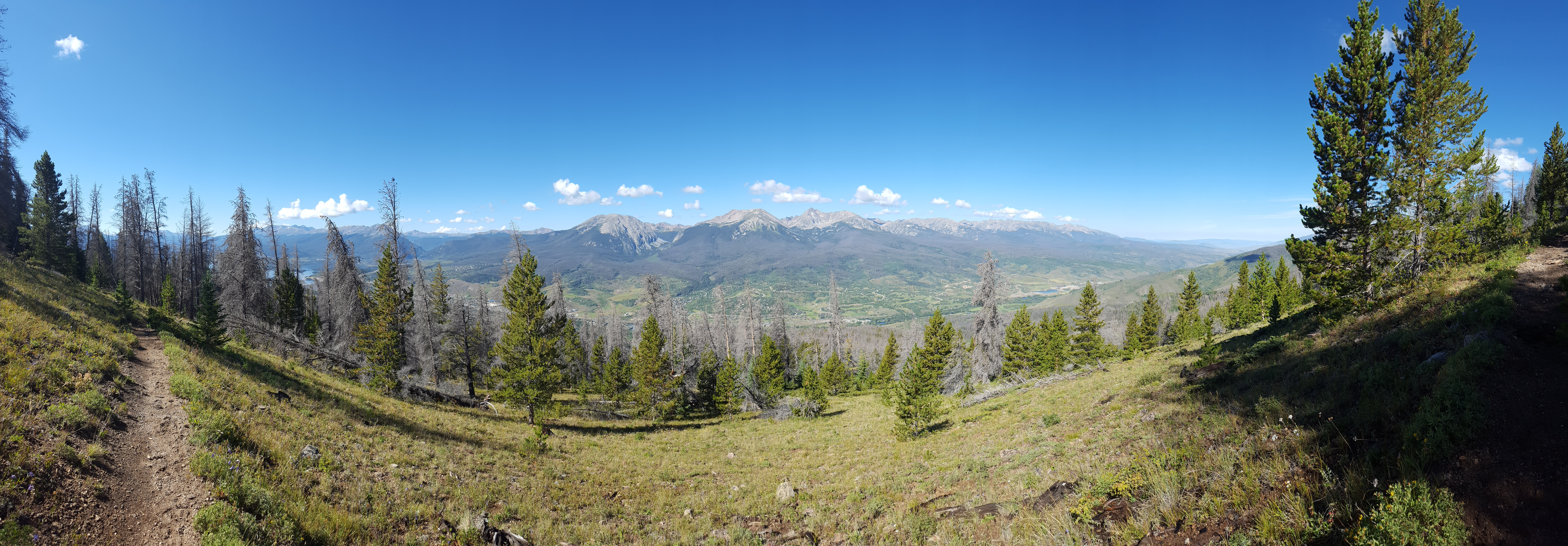 Panoramic shot of Gore Range from the Ptarmigan Peak trail